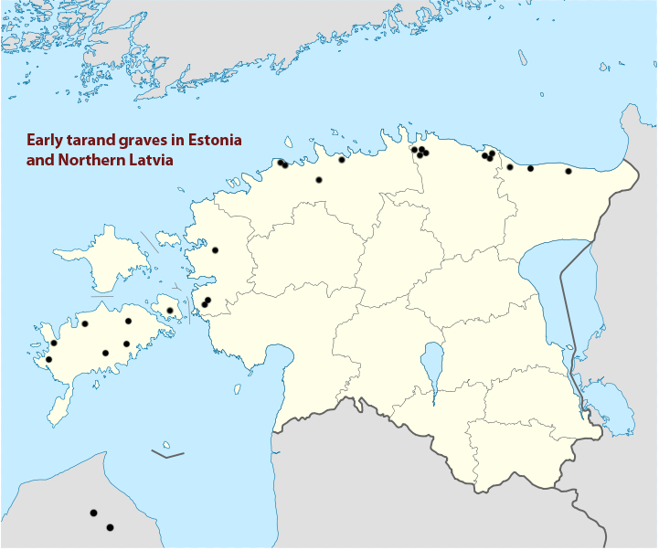 Early tarand graves in Estonia and Northern Latvia